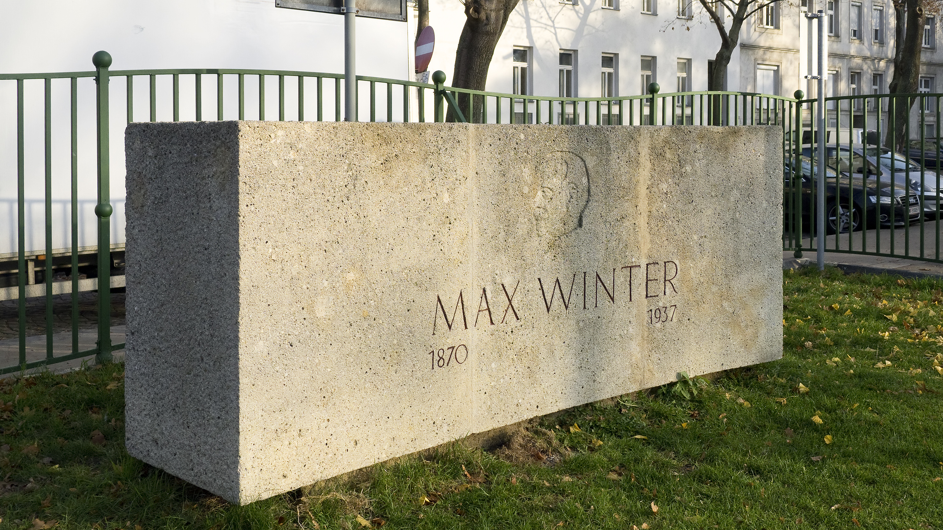 Max-Winter-Park in Vienna Leopoldstadt, Memorial for Max Winter